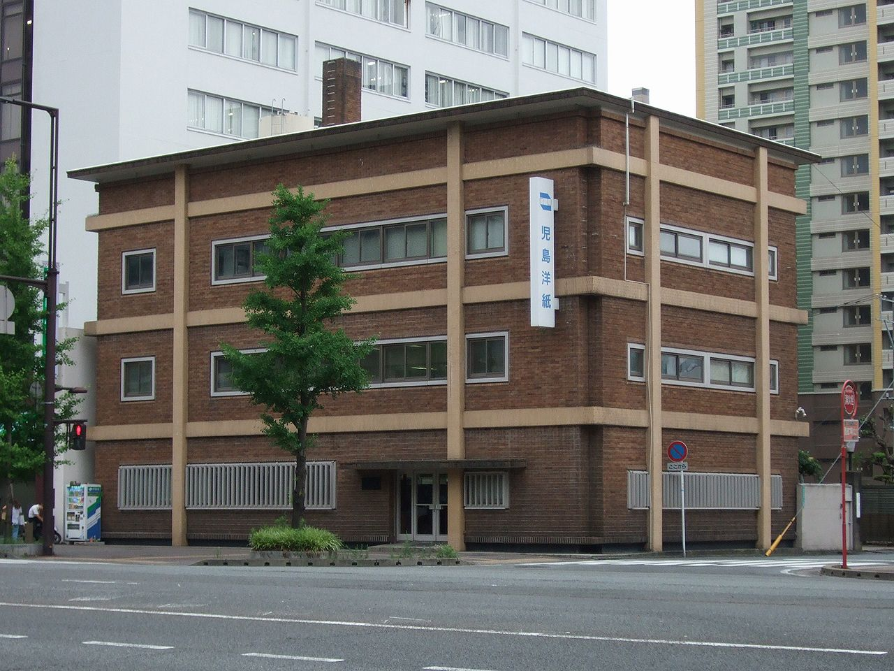 KOJIMA PAPER LIMITED headquarters, Nakasunakashimamachi, Hakata Ward, Fukuoka City, Fukuoka, Japan. / Designed by Taro Amano